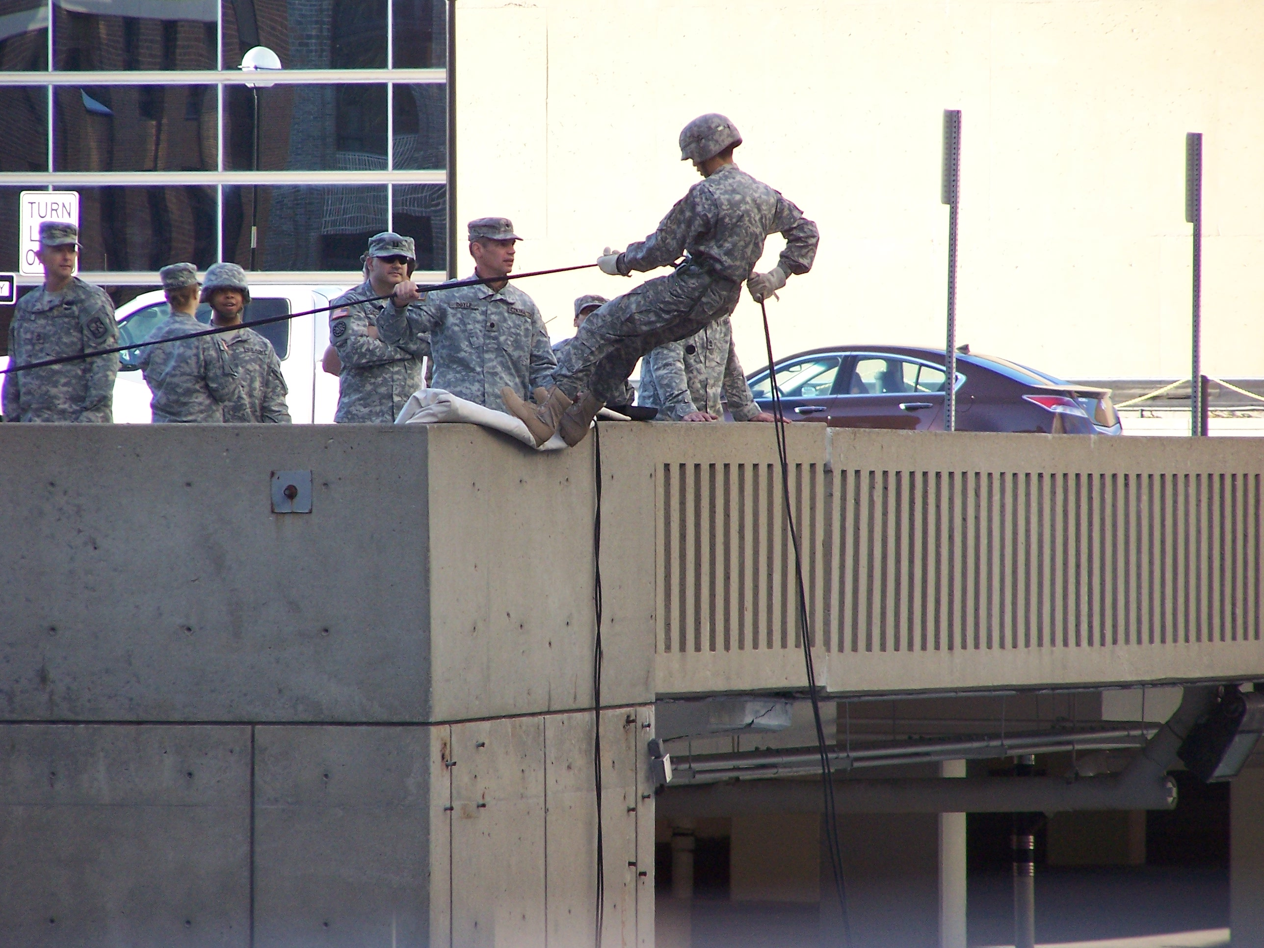 Reserve Officers' Training Corps members practicing rappelling at the University of Michigan.